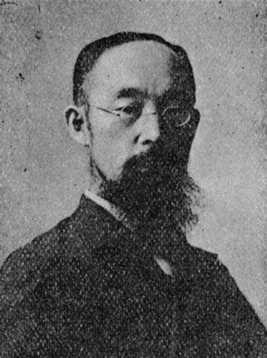 Mr. Hatsutarō Tamura, principal of the Heian Jogakuin.